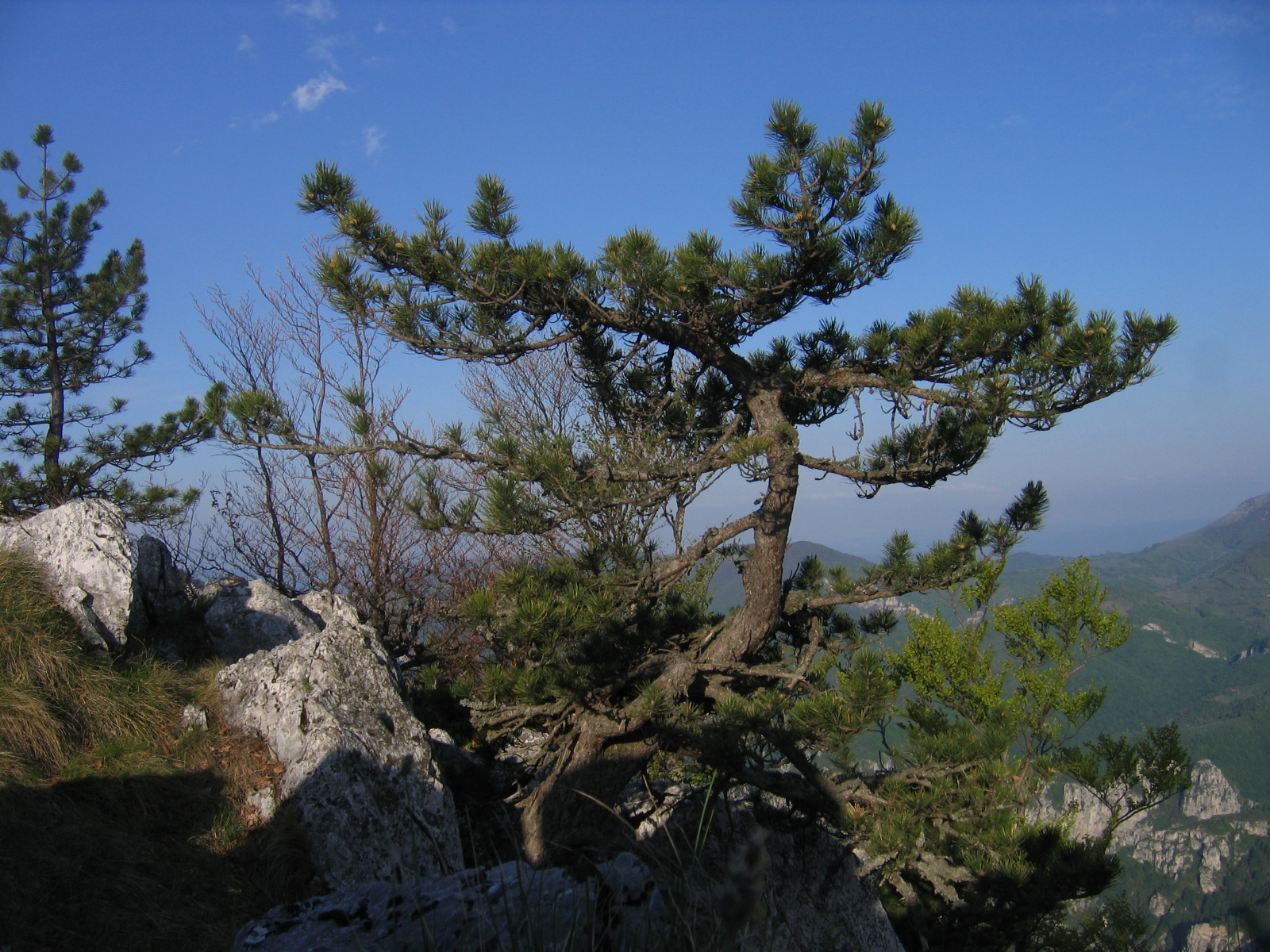 Mehedinti mountains Romania